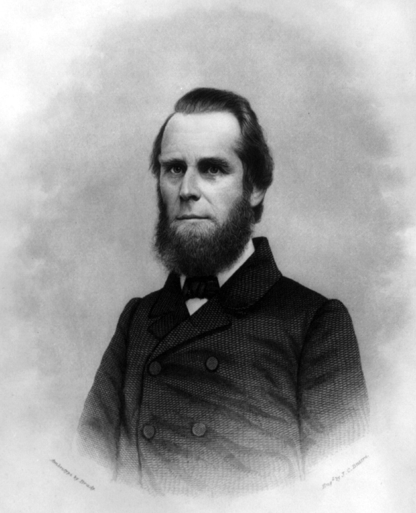 Jeptha Wade, a co-founder of Western Union. Illus. in Tal P. Shaffner, The telegraph manual, 1859.